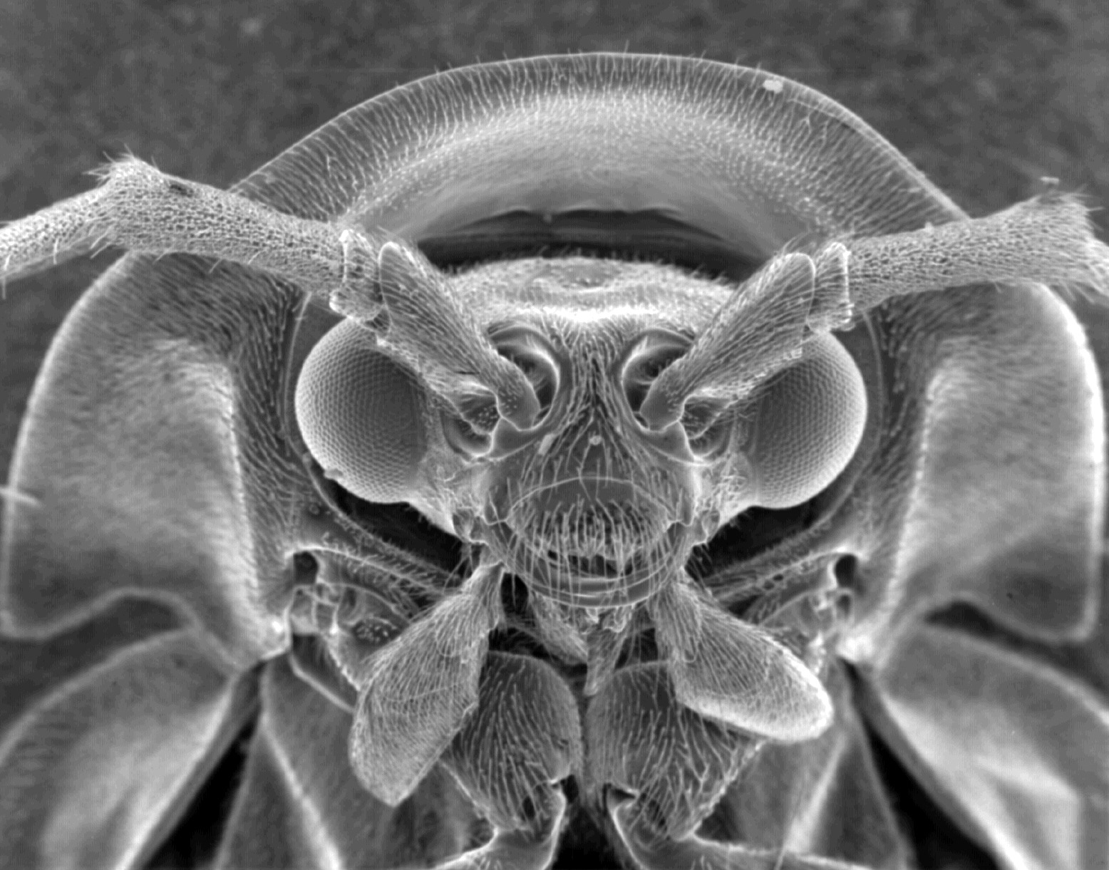 Scanning electron microscope image of a lightning bug.